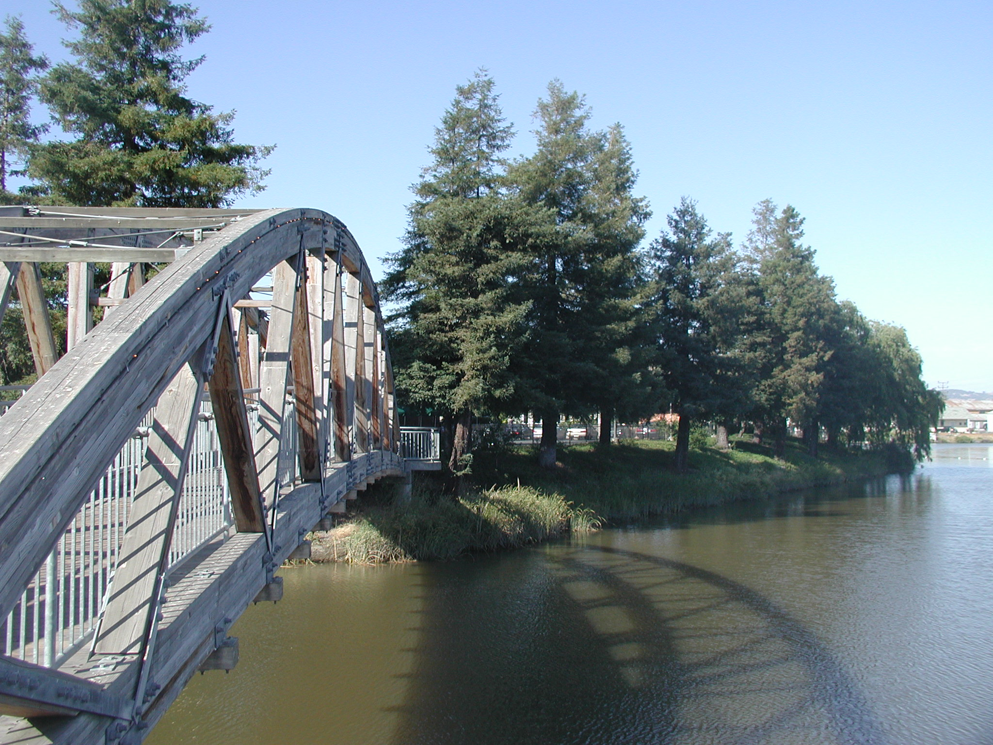 Petaluma, CA, Wooden Bridge over Petaluma River